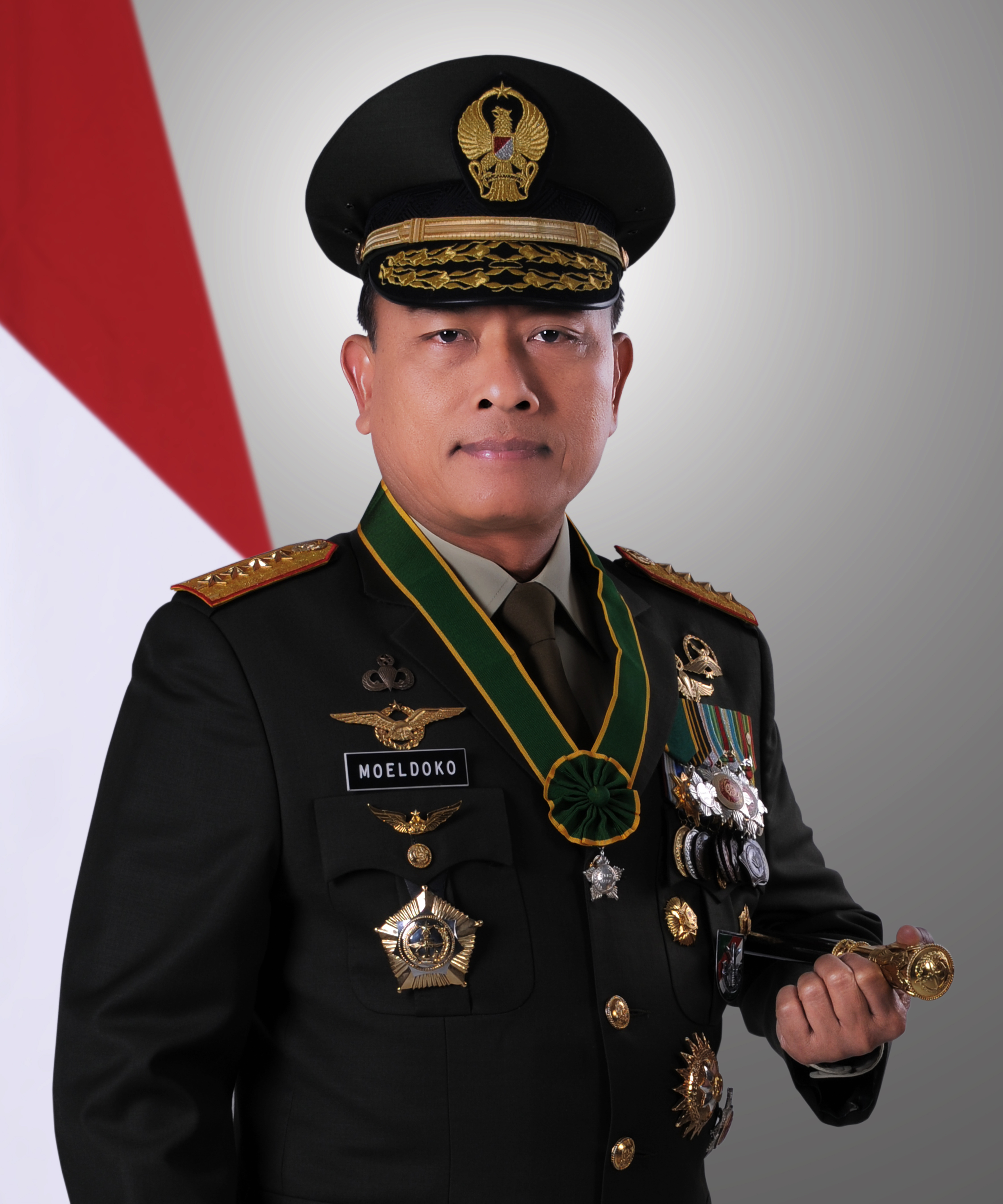 Portrait of General Moeldoko (Indonesia)